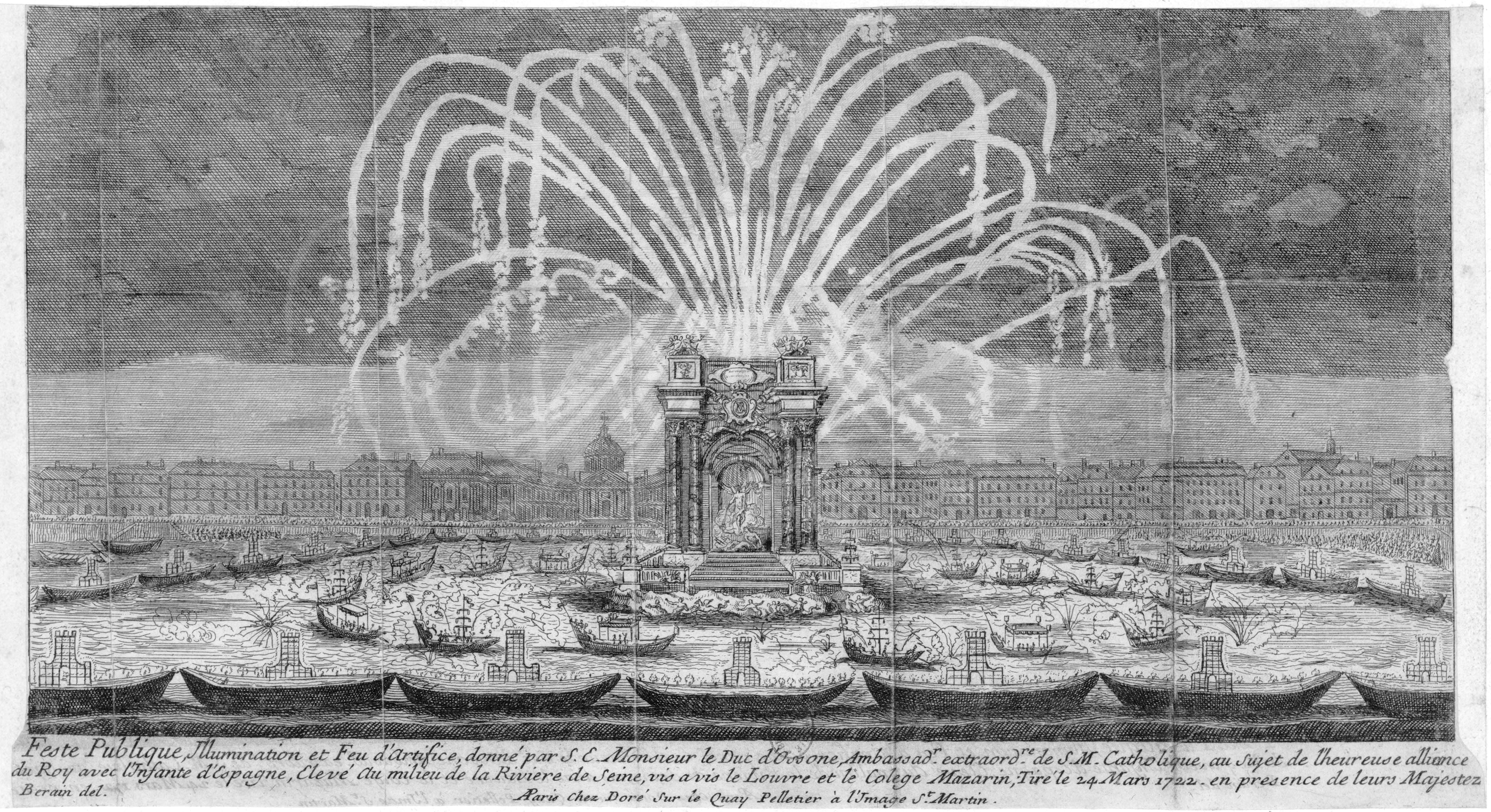 Public festival, illumination and fireworks given by the Duke of Ossone ... on the subject of the happy alliance of the king (Louis XV) with the Infanta of Spain (Mariana Victoria of Spain), launched in the middle of the Seine, opposite the Louvre and the Collège Mazarin on 24 March 1722 in the presence of their majesties (engraving)